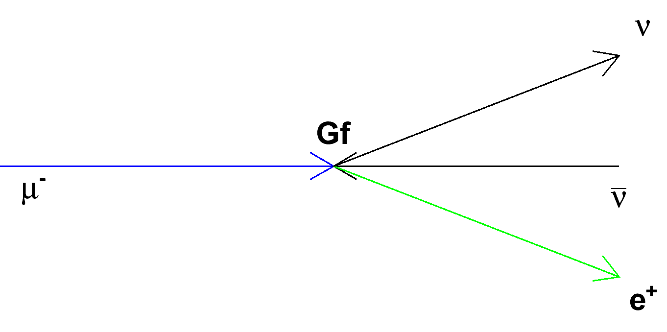 Muon 4-point vector current decay into an electron, muon neutrino and electron anti-neutrino, mediated by the Fermi Interaction under the strength of the Fermi Coupling Constant.